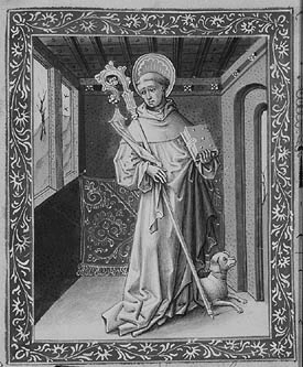 Bernard van Clairvaux. Suffrages. St. Bernard of Clairvaux holding a crozier and a book. 80x65 iconclass: 11H(BERNARD) 11P31131 11P31521 34B11(+913) 49L72